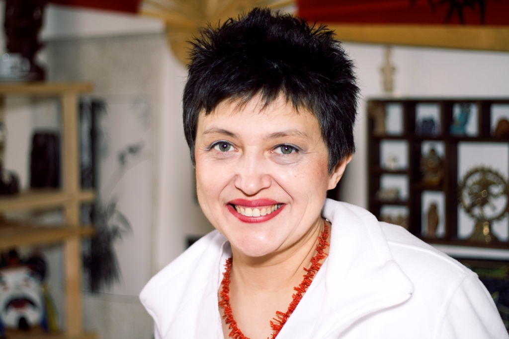 Dzamila Stehlikova